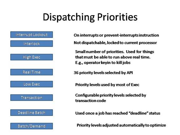 Unisys OS 2200 dispatching priority diagram for use in article.